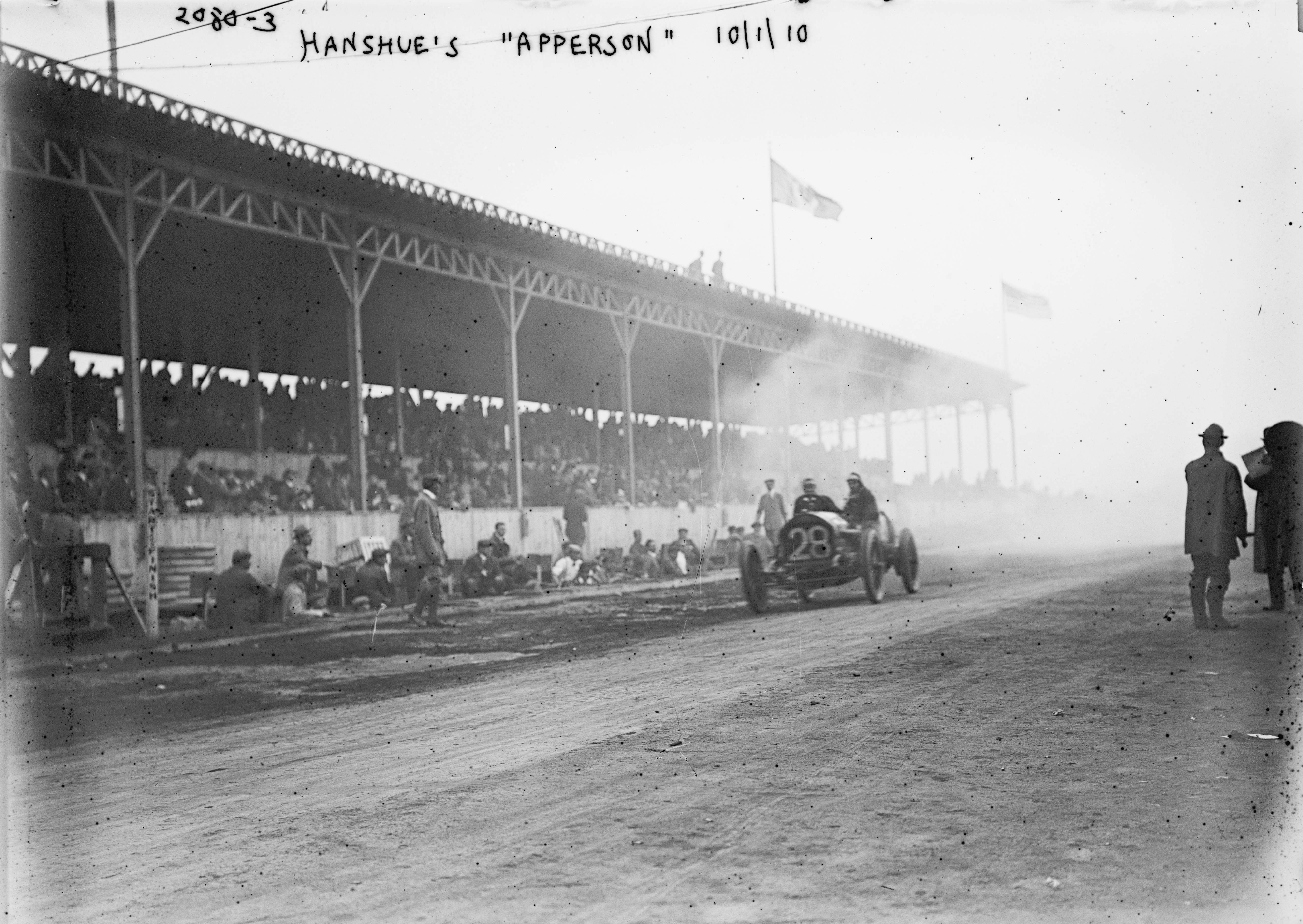 Harris Hanshue, American racecar driver, in “Apperson”, Vanderbilt cup 1910